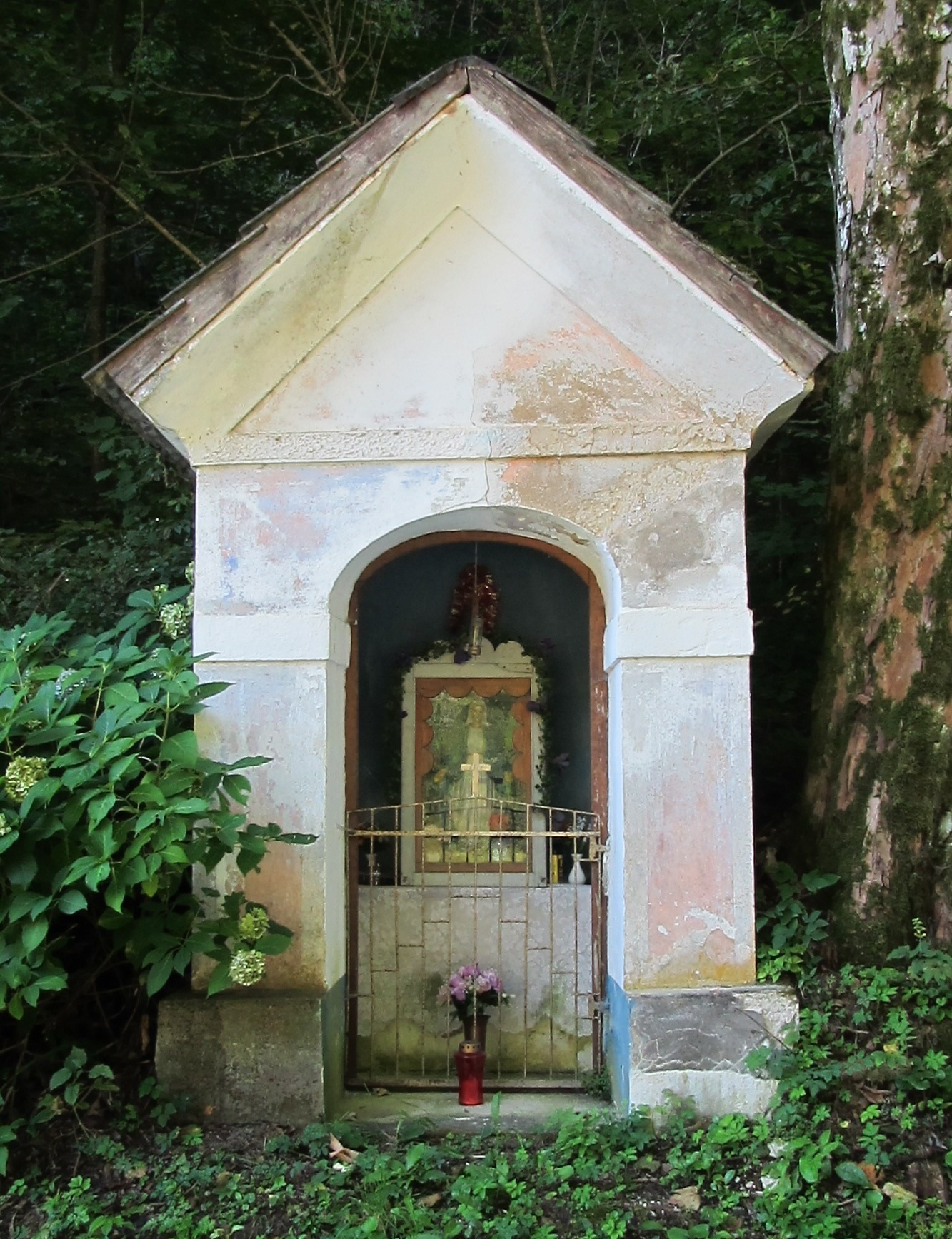 Wayside shrine in the village of Srednji Vrh, Municipality of Dobrova-Polhov Gradec, Slovenia